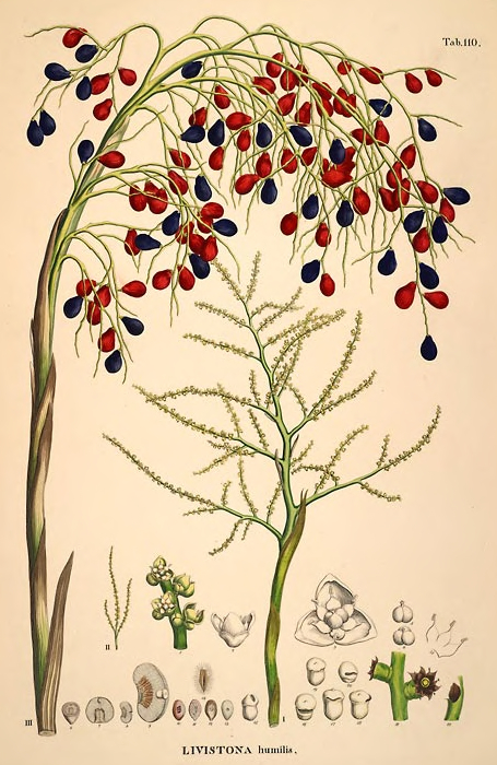 Illustration of species of palm found in Australia, intended to accompany original description by Robert Brown